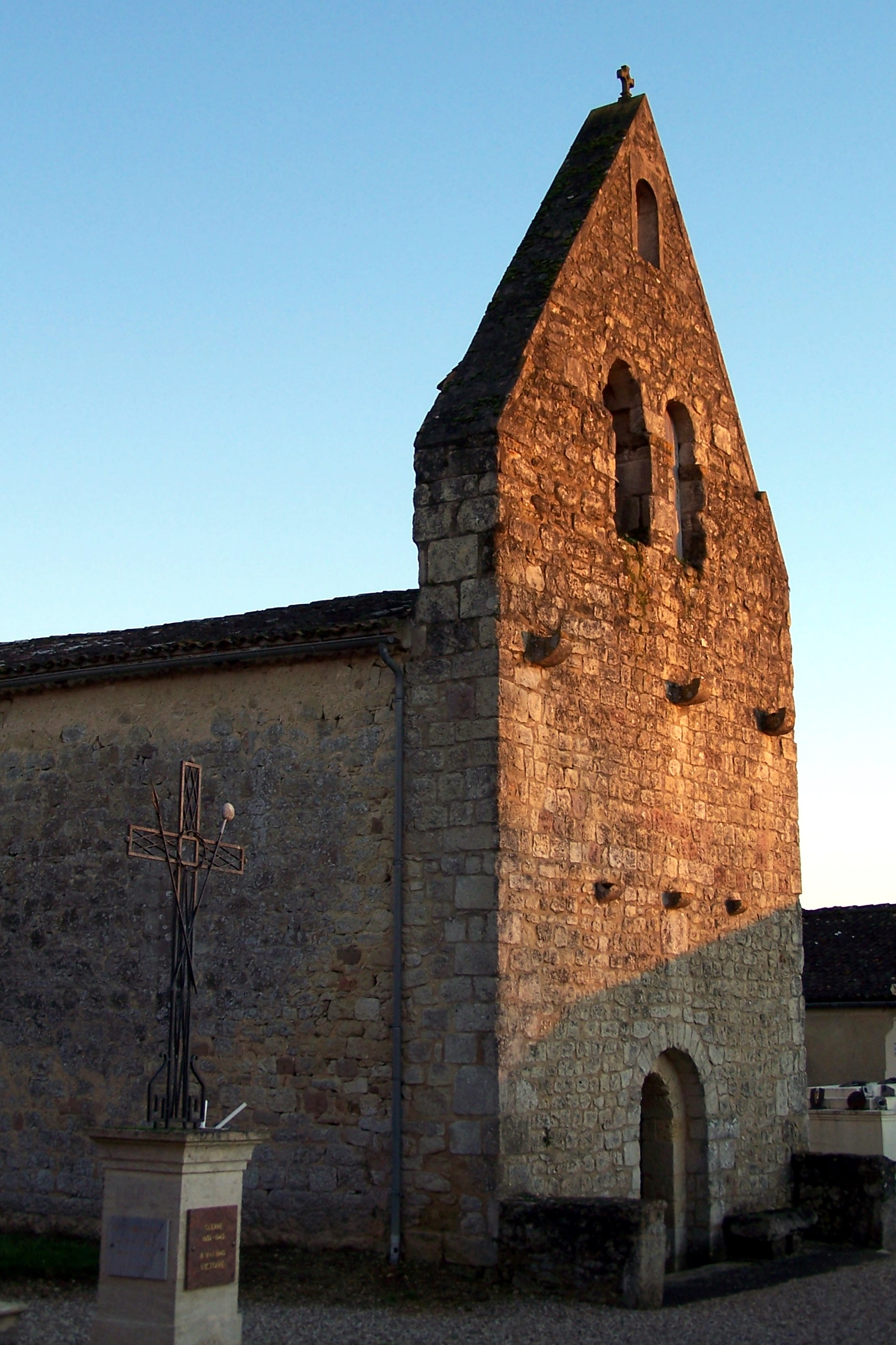 Church of Saint-Laurent-du-Plan (Gironde, France)